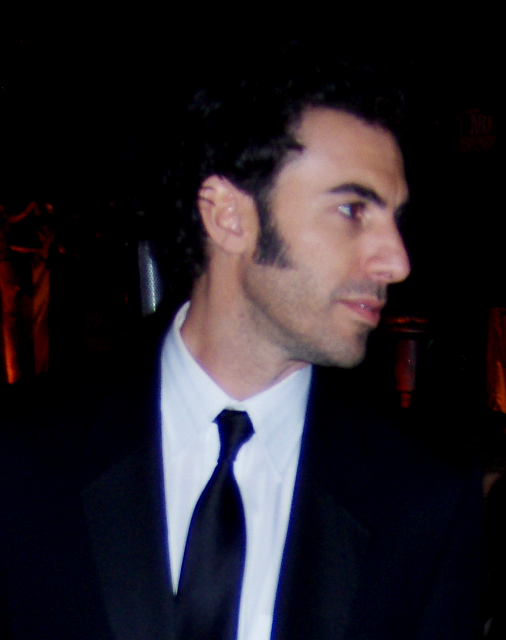 As far as I knew, he was the only Globe winner to show at the E! after-party. He didn't stay long, though.